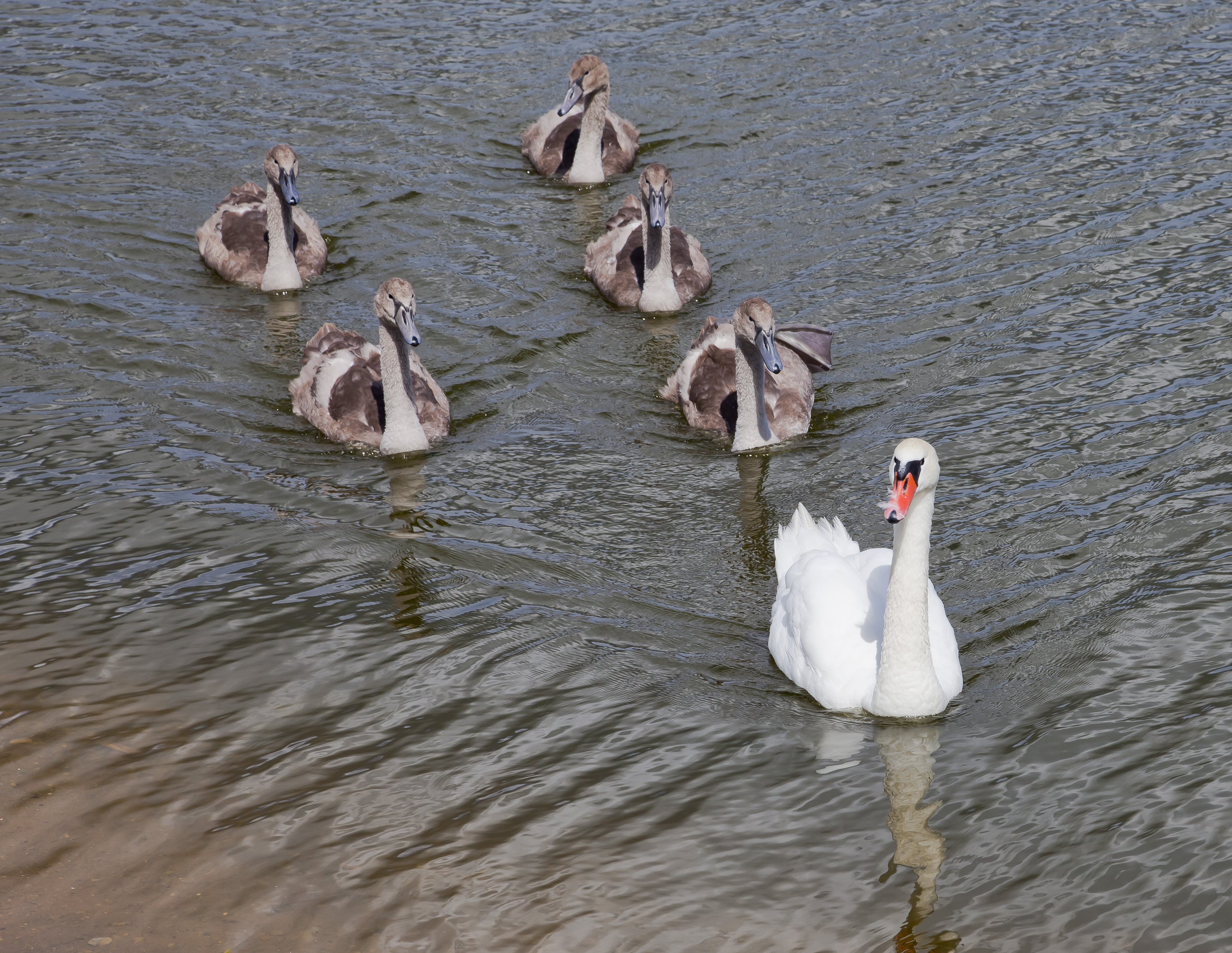 Swan (Cygnus olor), Siauliai, Lithuania